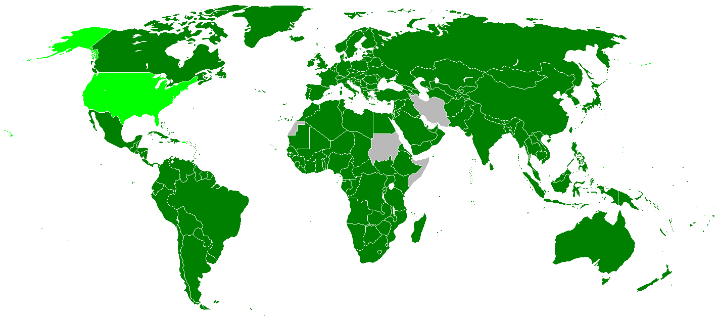 Parties to the Convention on the Elimination of All Forms of Discrimination Against Women, from the OHCHR. Parties in dark green, countries which have signed but not ratified in light green, non-members in grey.